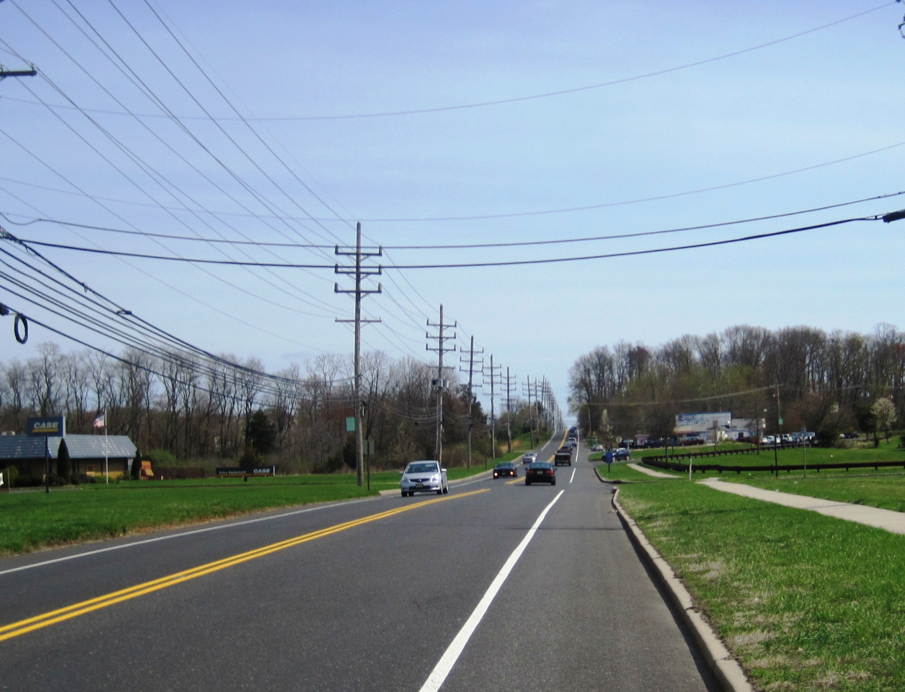 Photo of Elton, New Jersey, an unincorporated community on the border of Manalapan and Freehold townships. Photo taken on eastbound Monmouth Road (County Route 537) approaching its split with CR 524 east.